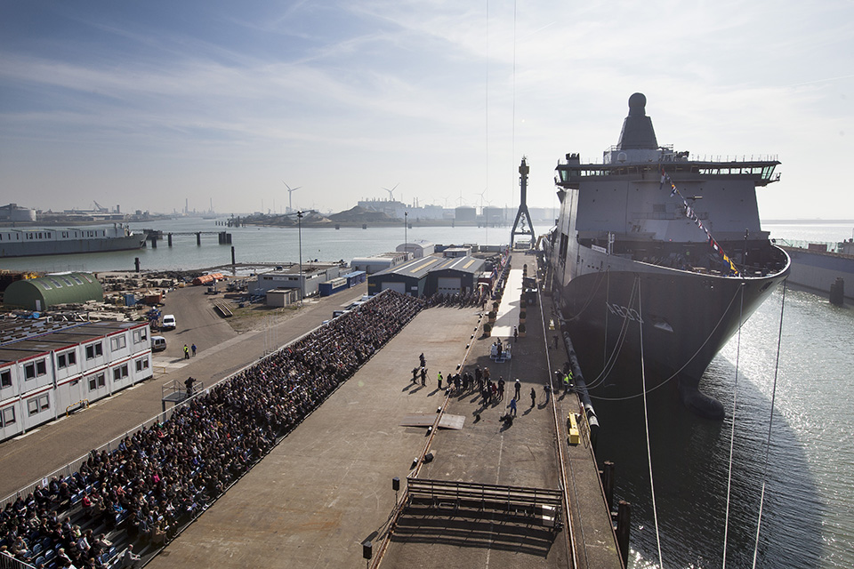 Christening of the Karel Doorman in Vlissingen.